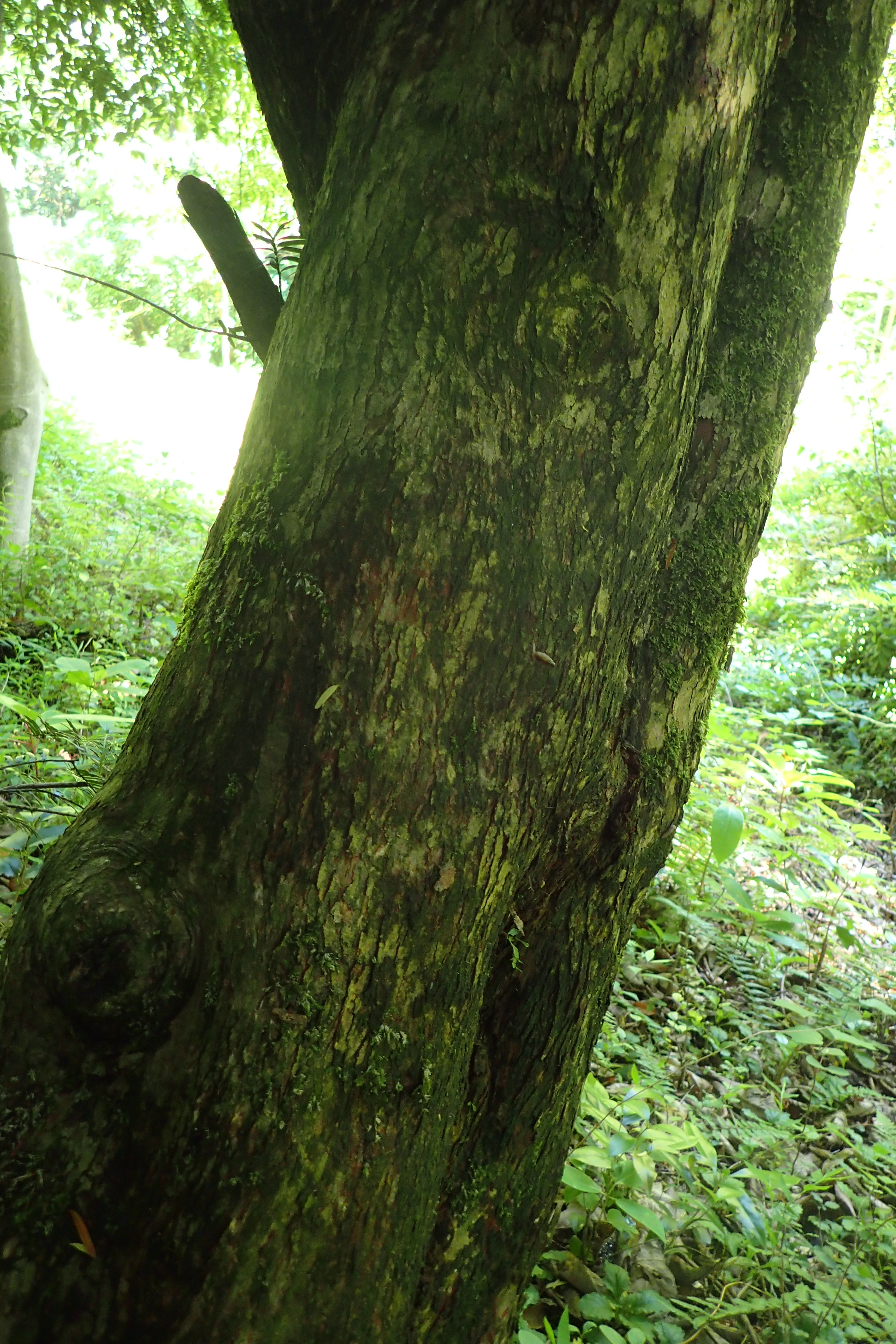 Taxus wallichiana var. mairei in botanical garden in Batumi